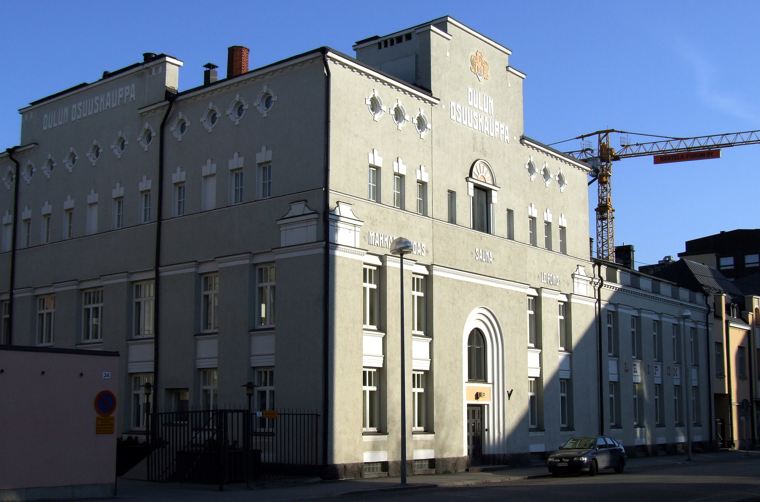 The former bakery, sausage factory and sauna of the Consumers' cooperative of Oulu. The building was completed in 1909 and it was designed by architect Karl Sandelin.